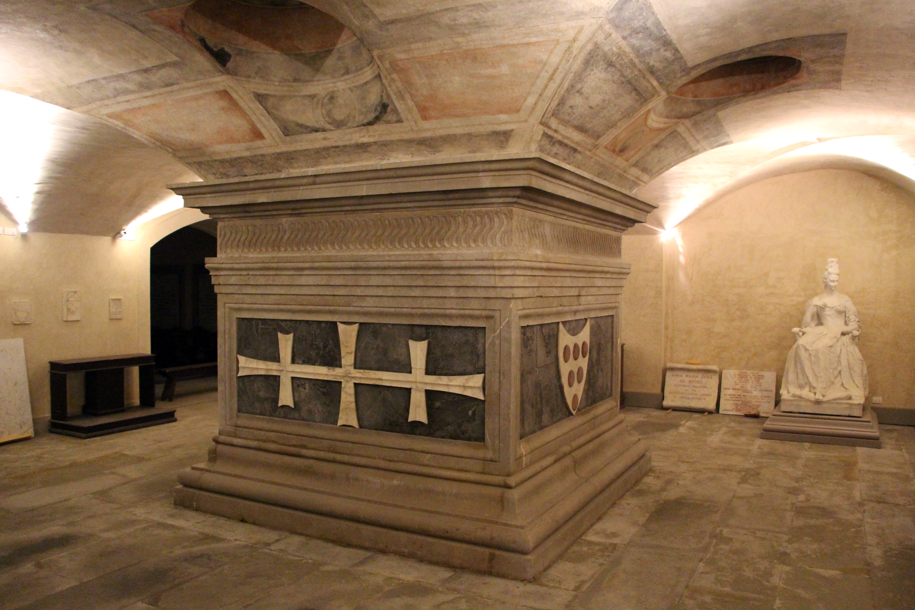 Interior of the Basilica of San Lorenzo (Florence) - Crypt